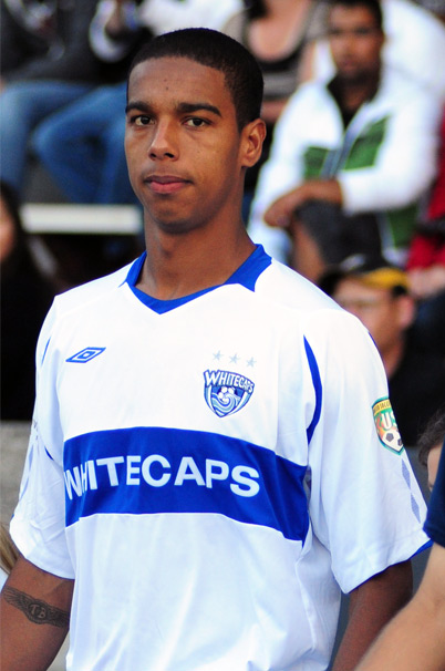 Photo of soccer player, Tyrell Burgess.